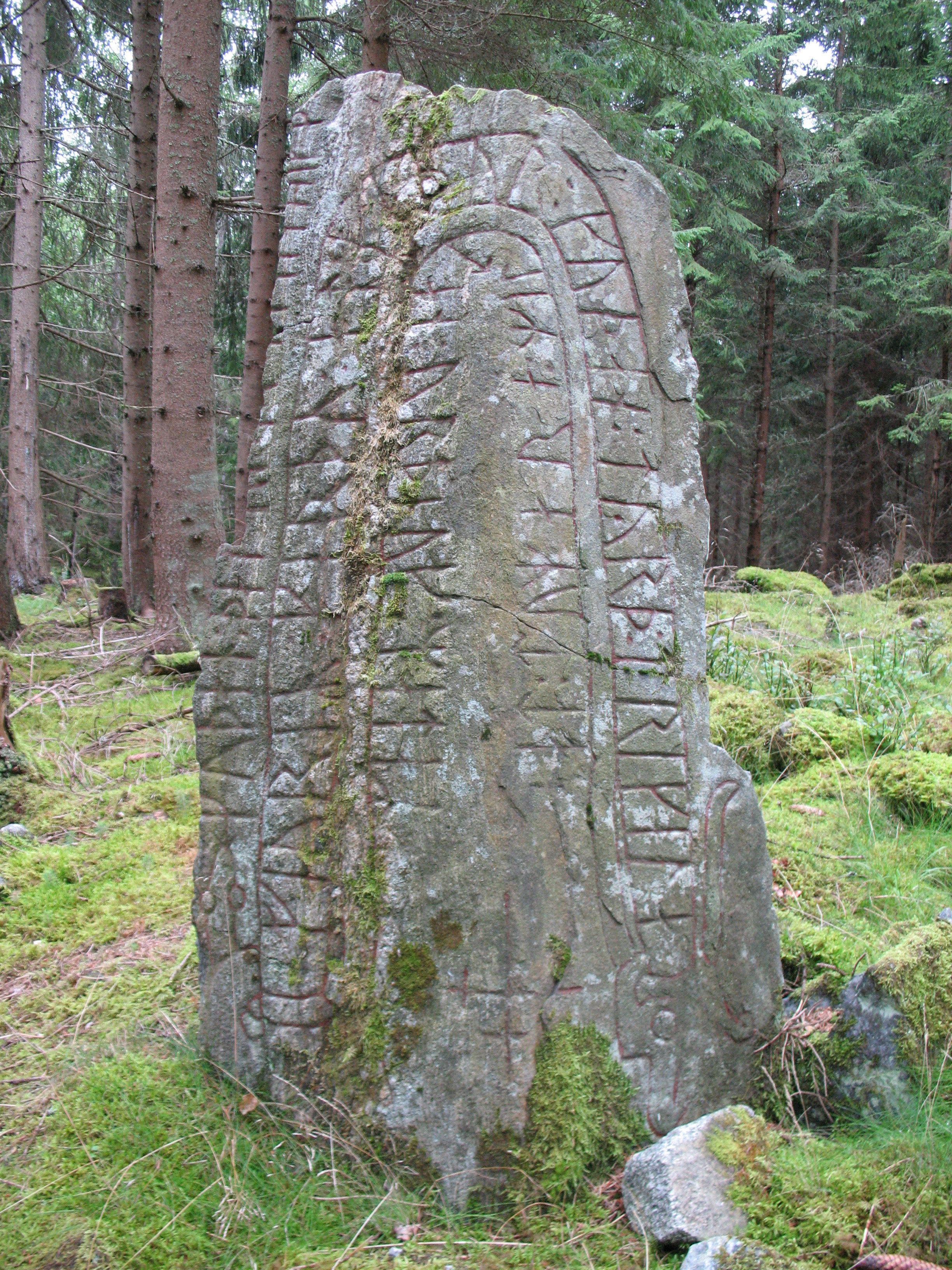 runestone